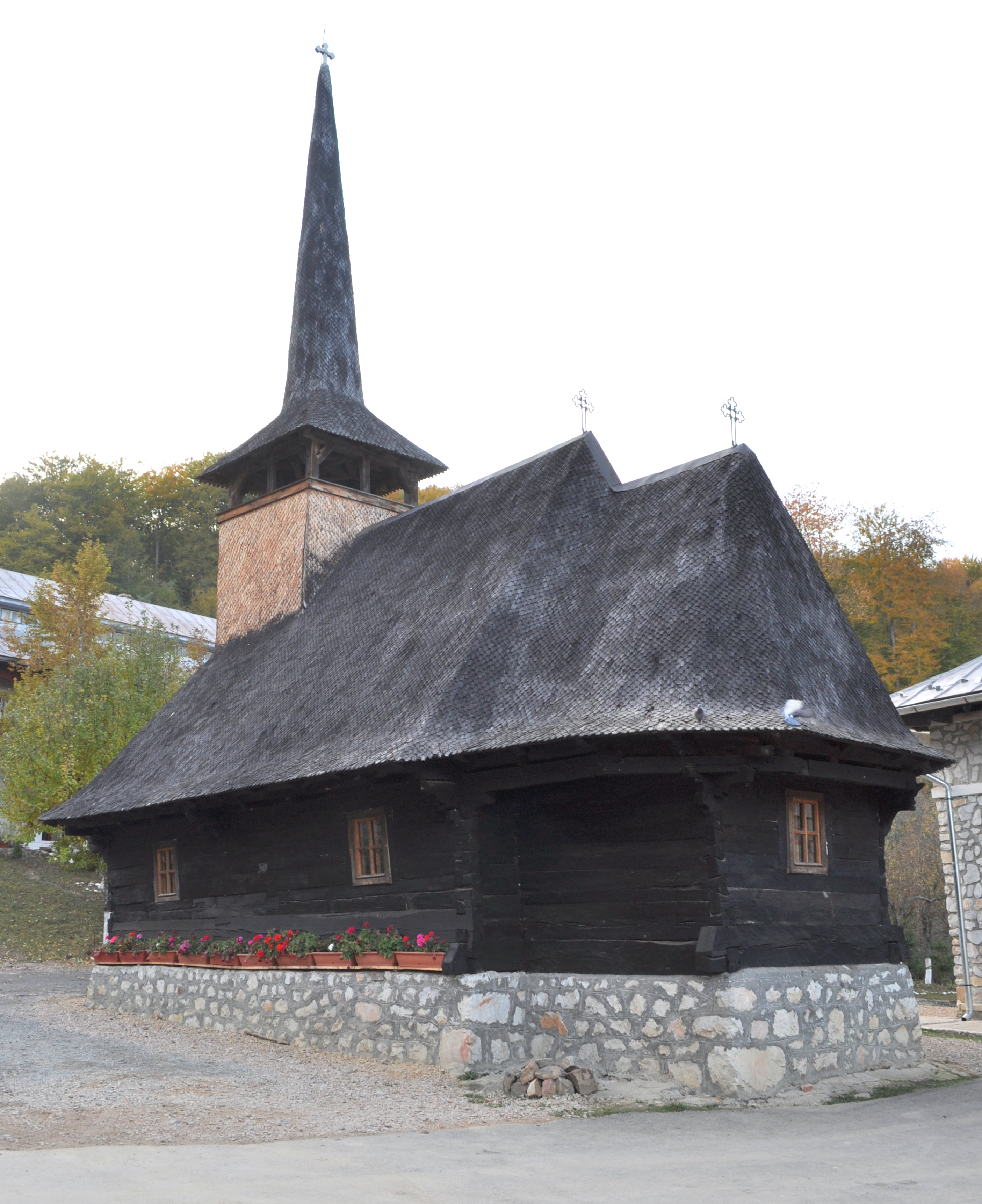 the Izbuc Orthodox monastery near Călugări village, Codru-Moma Mountains, Romania